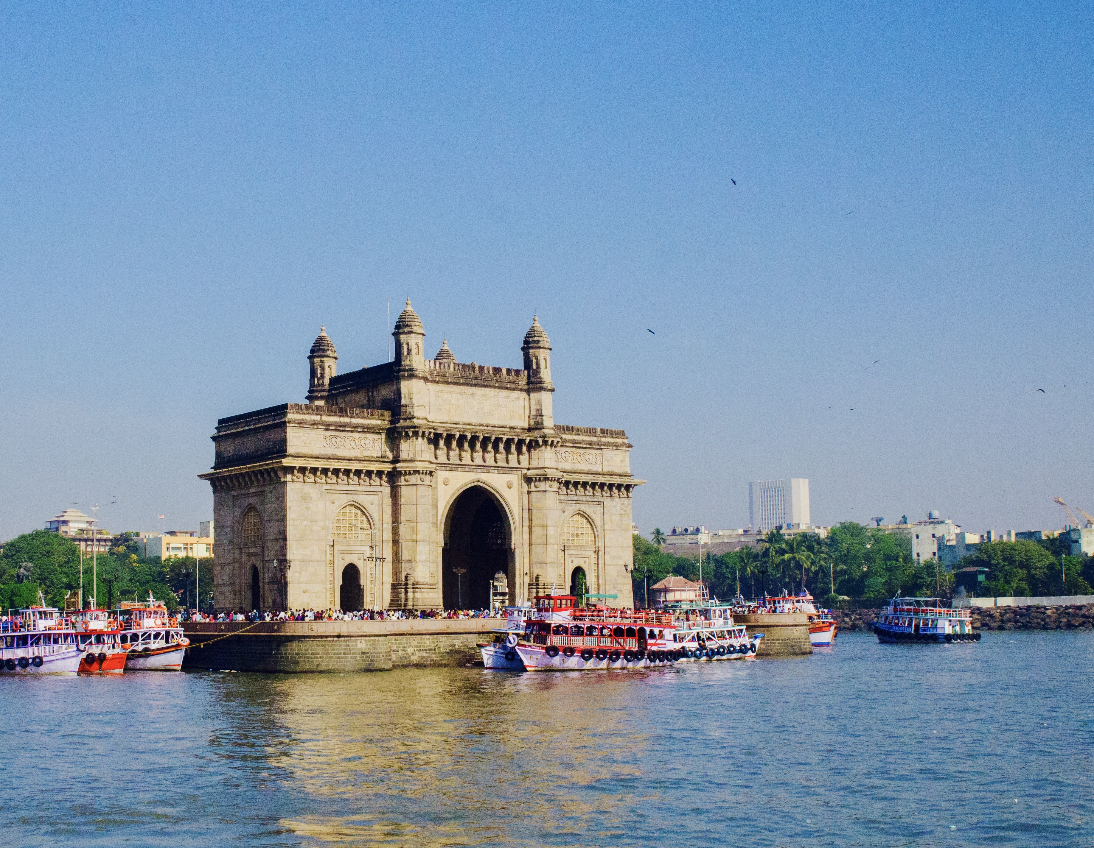 Gateway of India